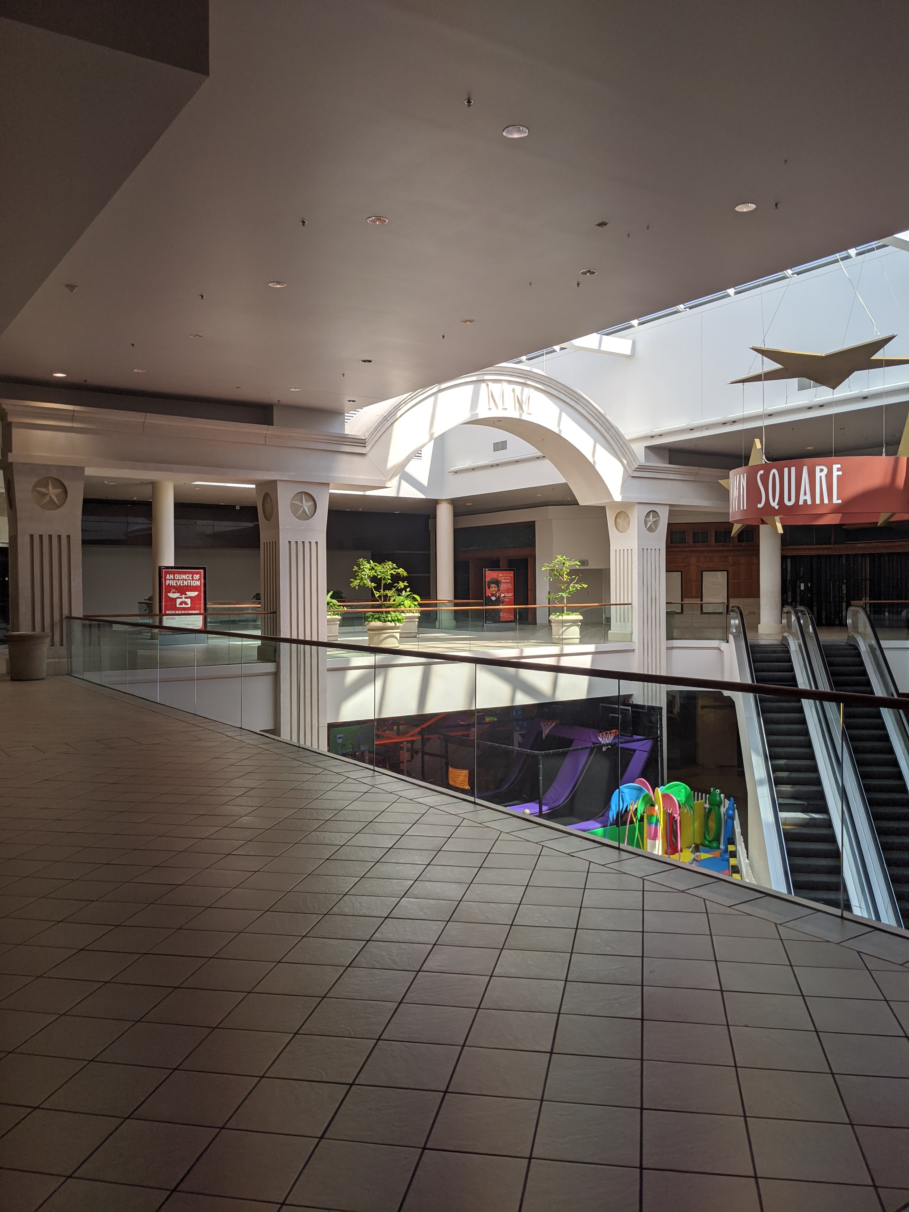 The Mostly Vacant Macy's Court